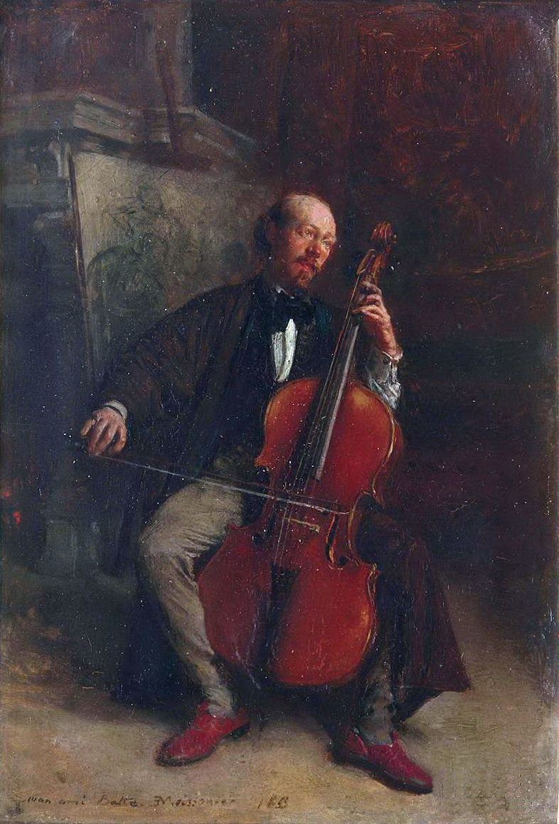 Portrait of the Dutch cellist Alexander Batta (1816-1902)